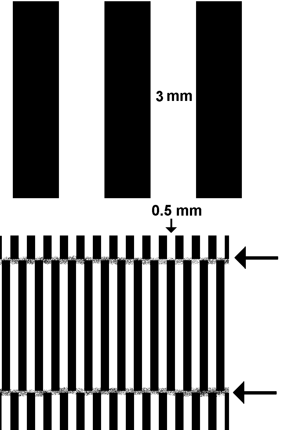 Improving domain structure in grain-oriented electrical steel by ball rolling or laser scribing.